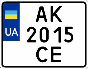 License plates of Ukraine (2015)